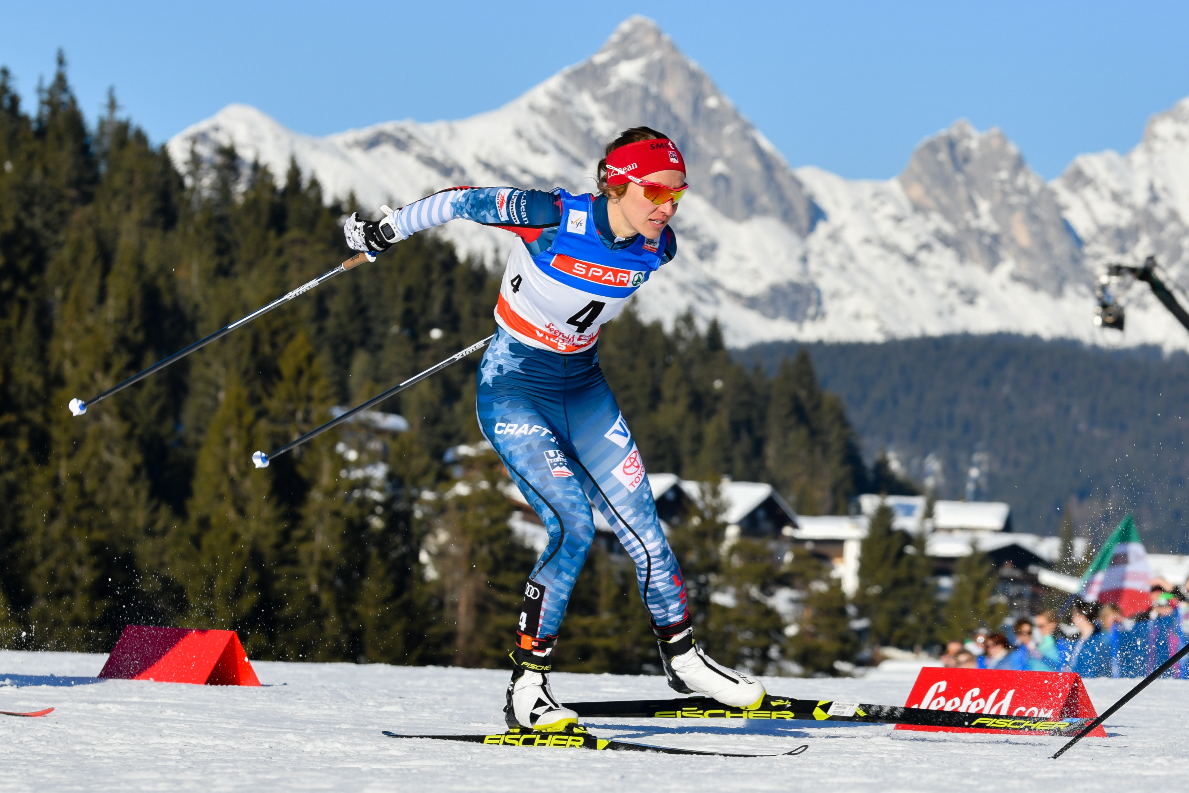 Seefeld-Triple 2018, second day January 27th. Picture shows Sophie Caldwell